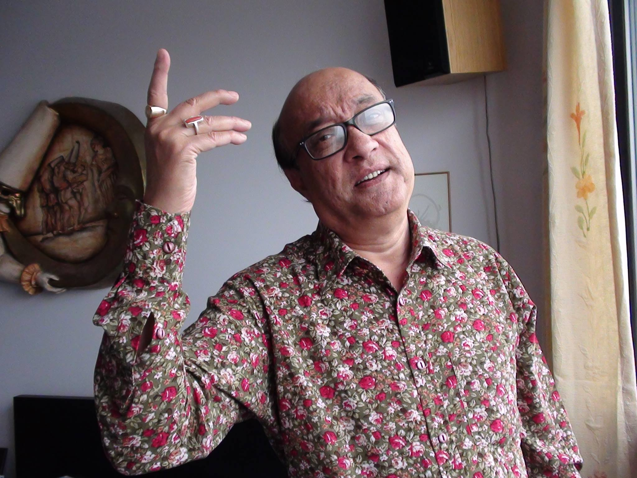 Mime artist partha protim Mojumder at his Paris residence